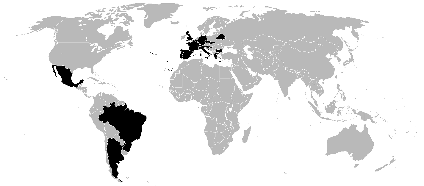 Map of the regions in which member federations of the Internation of Anarchist Federations operates (Argentina, Belarus, Belgium, Brazil, Britain, Bulgaria, Croatia, Czechia, France, Germany, Greece, Italy, Mexico, Portugal, Slovakia, Slovenia, Spain and Switzerland)